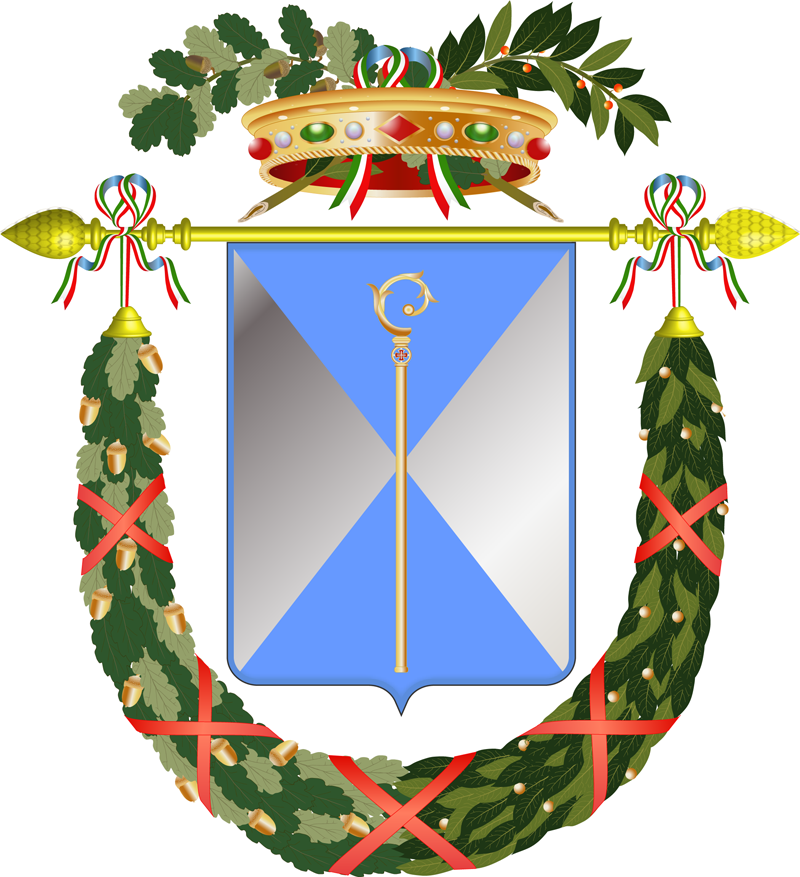 Coat of arms of Provincia di Bari, Italy